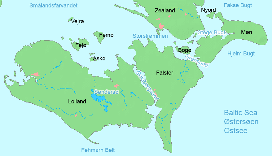 Denmark, islands of Lolland, Falster, Møn and the surrounding bays and islands.